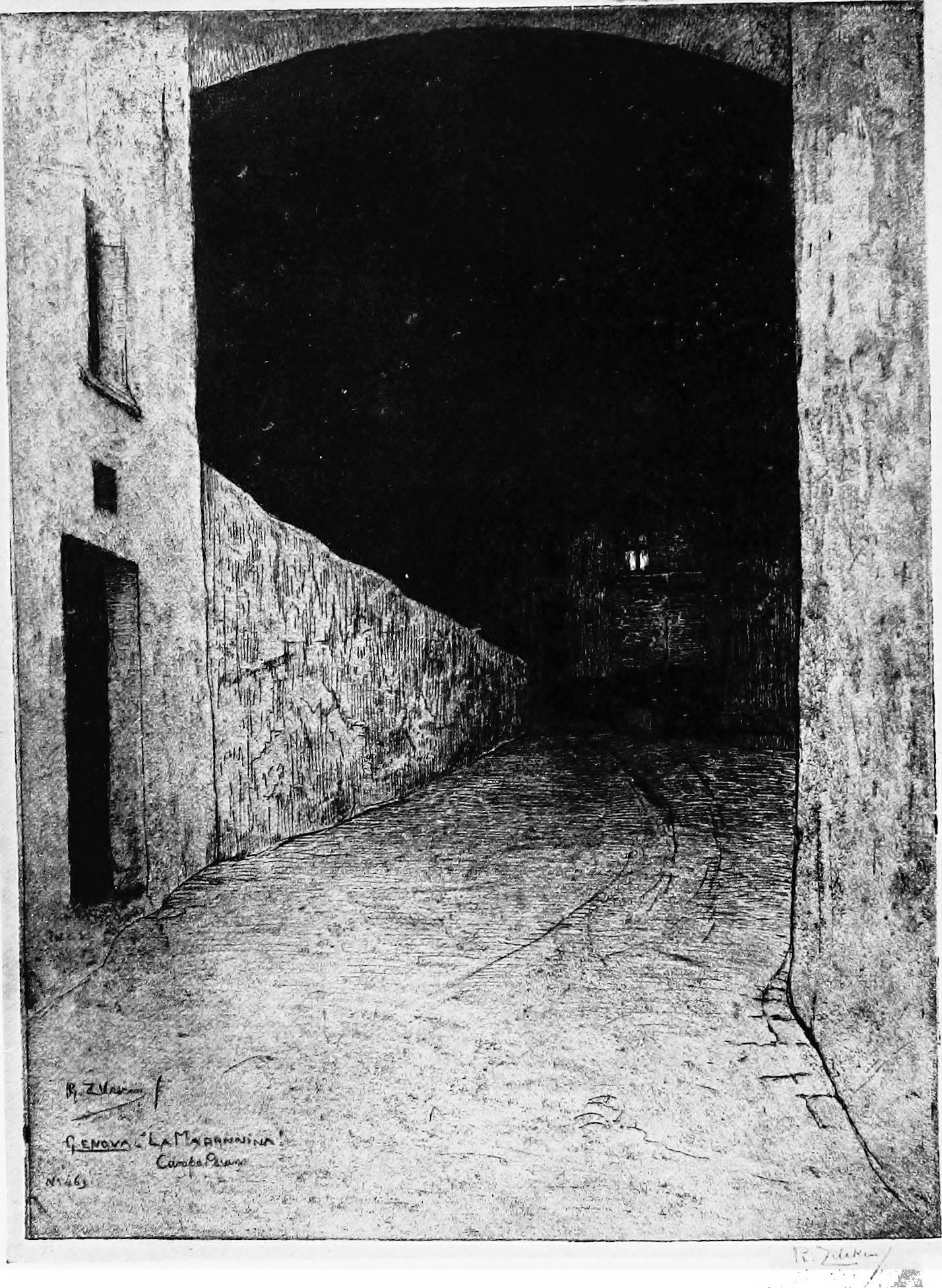 Title: Modern etchings, mezzotints and dry-points Year: 1913 (1910s) Authors: Holme, Charles, 1848-1923 Salaman, Malcolm C. (Malcolm Charles), 1855-1940 Taylor, E. A Zilcken, Ph., 1857-1930 Levetus, A. S Deubner, Ludwig, 1877-1946 Laurin, Thorsten Subjects: Etching Mezzotint engraving Dry-point Publisher: London, New York (etc.) "The Studio" ltd. Text Appearing Before Image: 215 Text Appearing After Image: ■la MADONNINA DEL CAMPO PISANO, GENOA.ORIGINAL ETCHING BY PH. ZILCKEN 2l6 AUSTRIA \ \ AUSTRIA. By A. S. Levetus THE art of etching was first practised in Austria about themiddle of last century, when the Gesellschaft der Kunst-freunde encouraged the graphic arts by presenting an annualalbum to its members containing lithographs, engravings, andetchings. These, however, were chiefly reproductive efforts,for it does not seem that copper-plate and needle were resorted to as ameans of expressing original artistic conceptions. It was not tillWilhelm Unger was called from Hanover to Vienna, to become aProfessor at the Imperial Academy, that fresh impetus was given tothe study of etching. But, great as were his powers, both as amaster of technique and as a teacher, his work lies beyond the scopeof the present article. He has, however, trained many distinguishedartists, men who have given forth excellent original work, and who,moreover, are masters of the technique of etching. On his retire